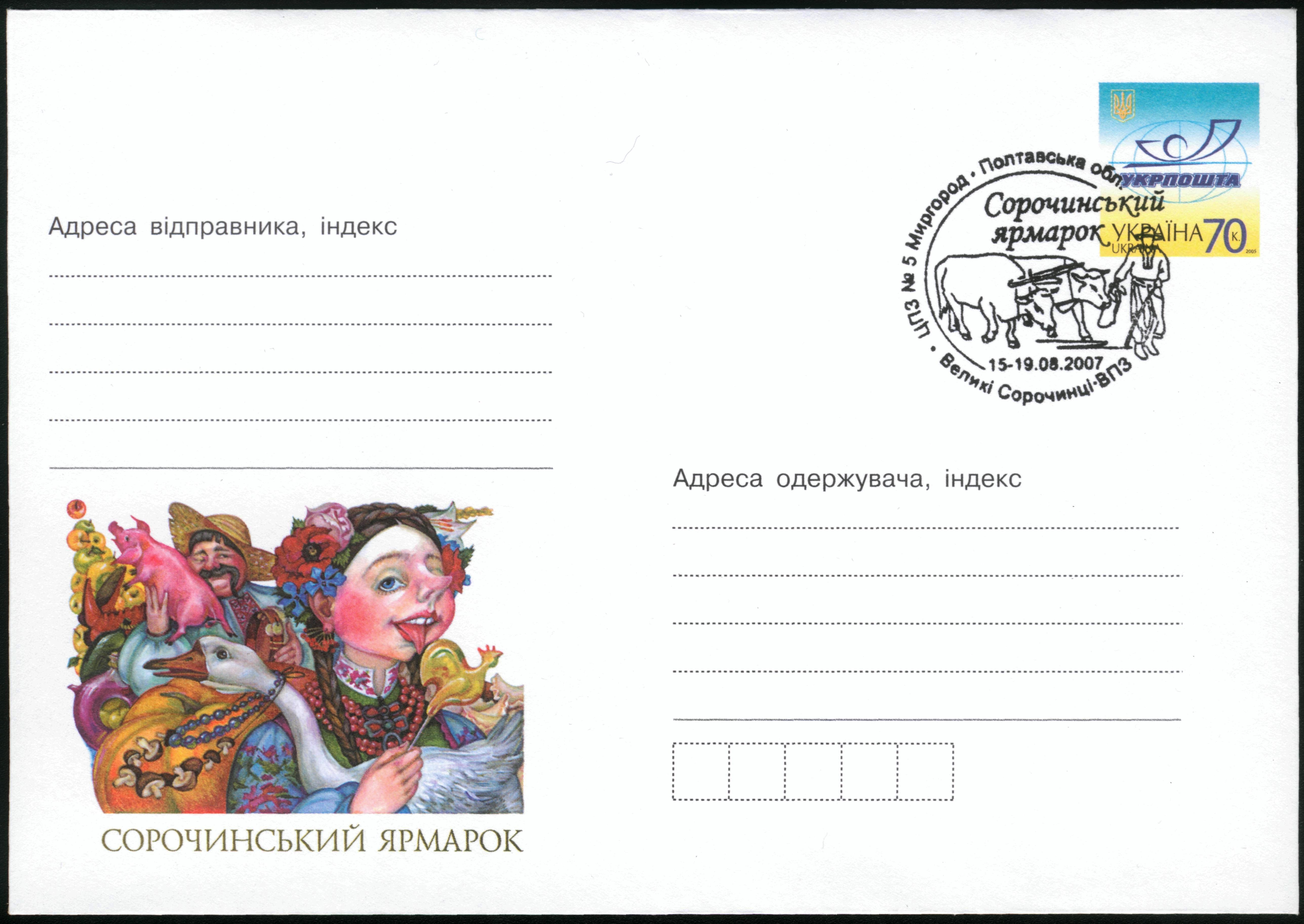 Ukraine stamp, postmark and cover, 2007.